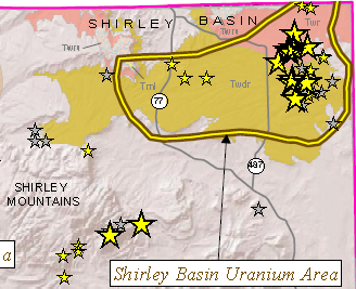 USGS Wyoming Shirley Basin uranium